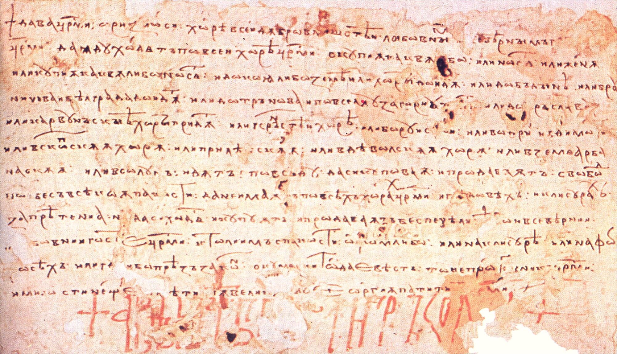 A permission granted by Ivan Asen II of Bulgaria to the tradesmen from Dubrovnik to travel